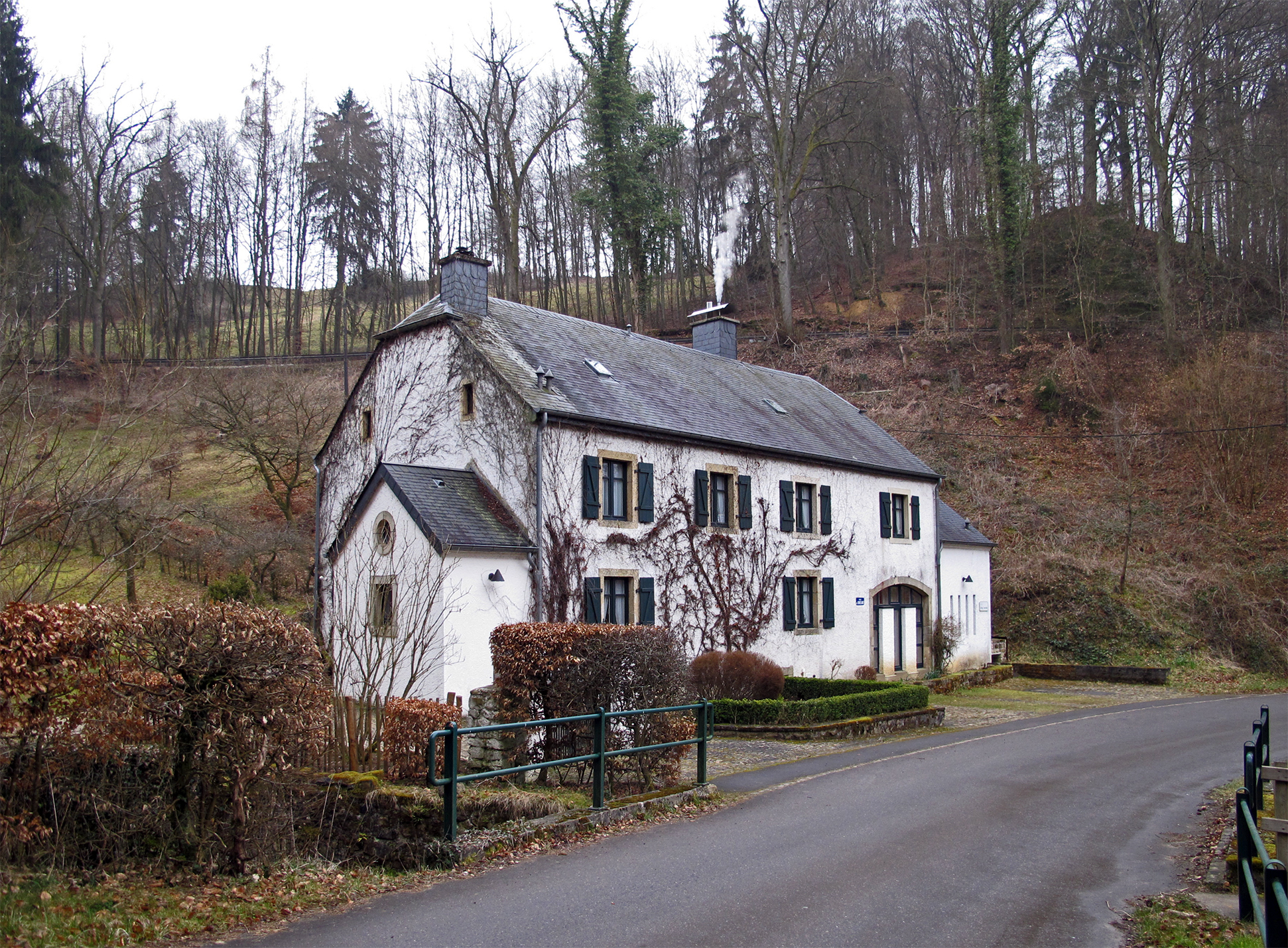 Place called "Kleng Amerika" near Dondelange, Luxembourg